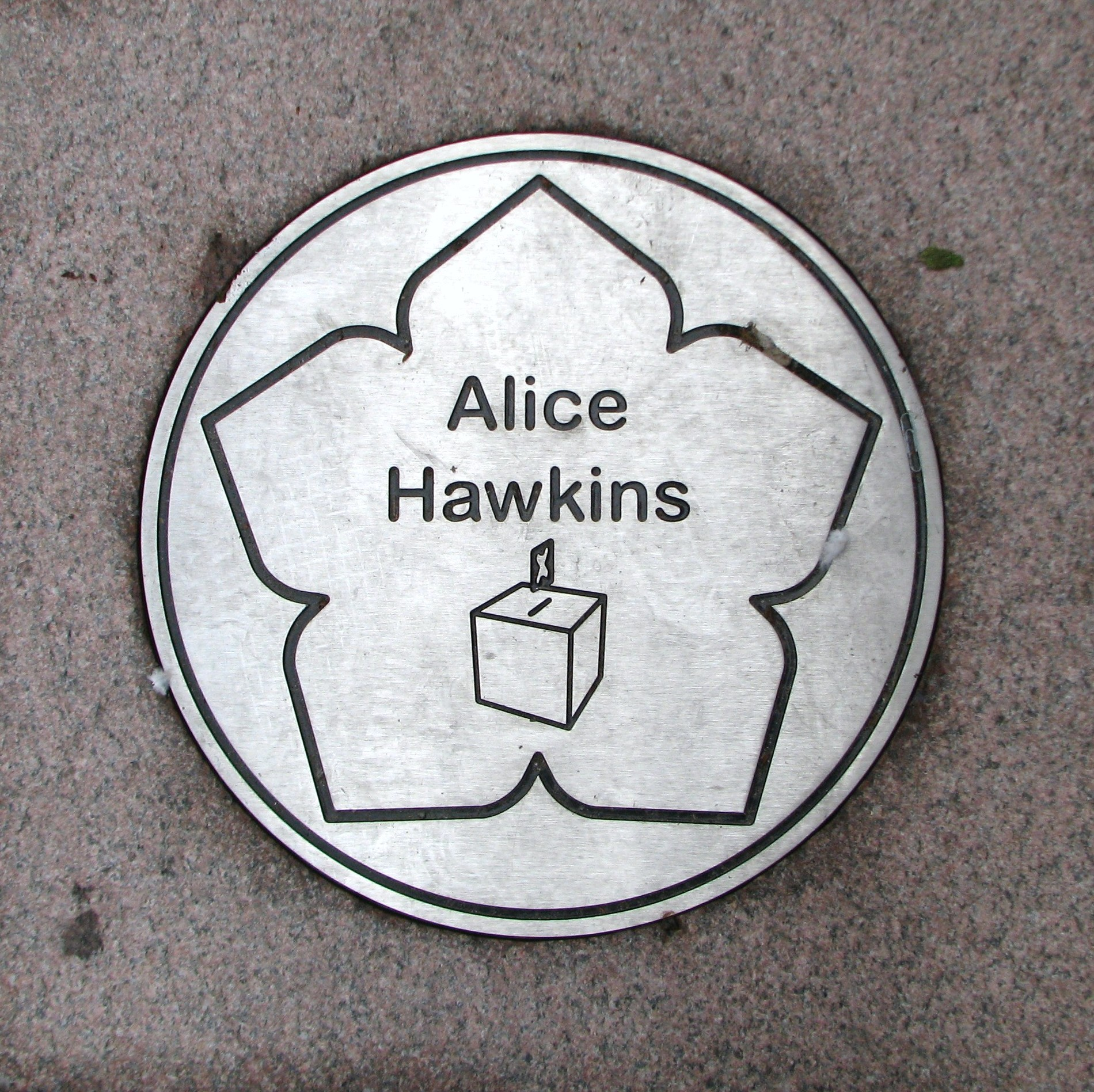 Plaque 4, Leicester Walk of Fame- Alice Hawkins For more information